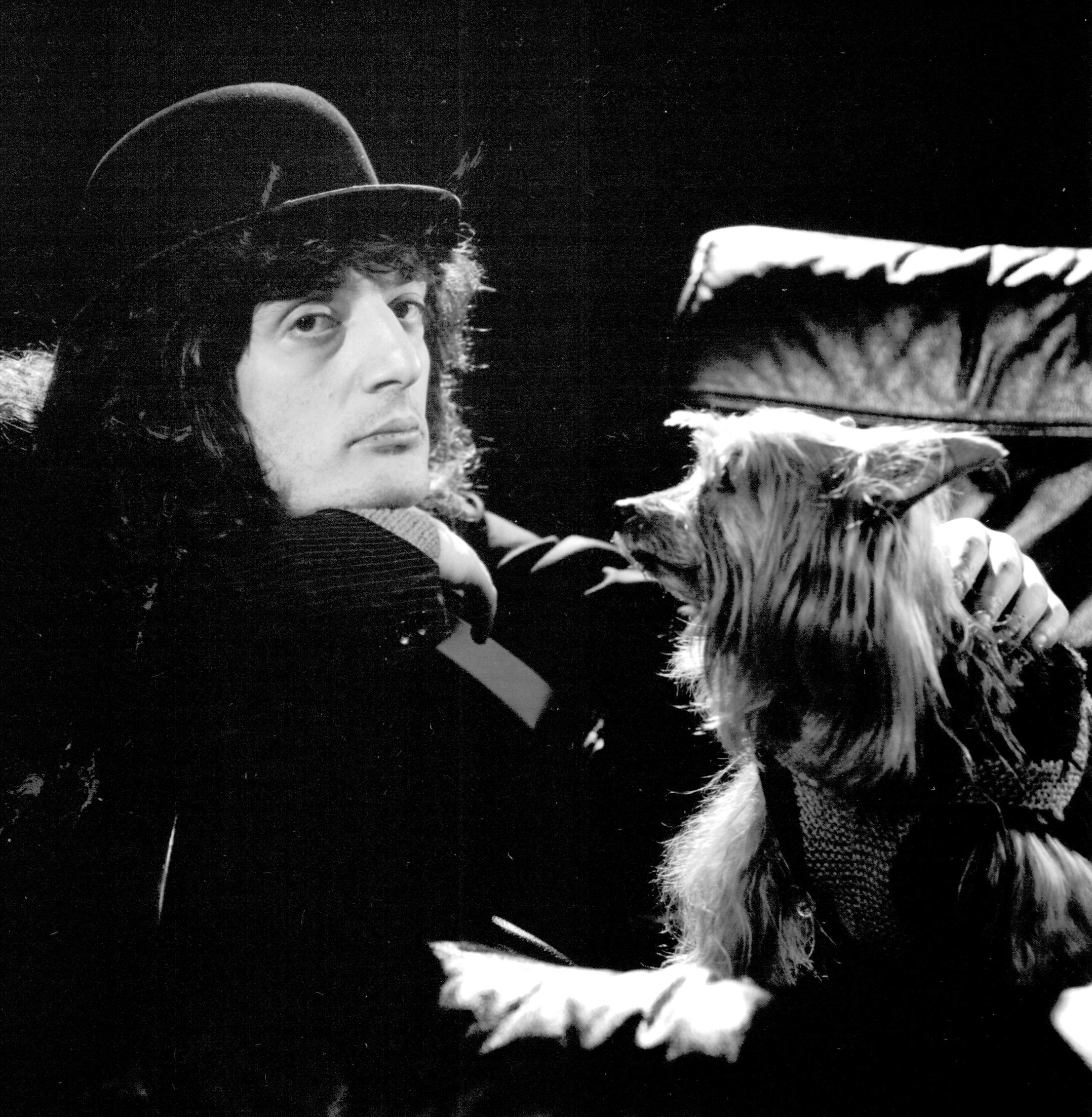 Jerry Sadowitz appearing on The Greatest F***ing Show on TV in 1994, made by Open Media for the Channel 4 series Without Walls.